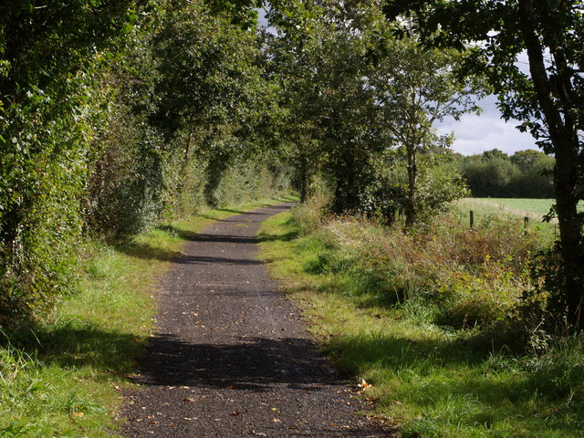 Tarka Trail, near to Winswell, Devon, Great Britain. The trail, combining footpath and cycleway, follows the North Devon and Cornwall Junction Light Railway across Marland Moor. Discreetly hidden by trees on the left are large clay working spoil heaps.